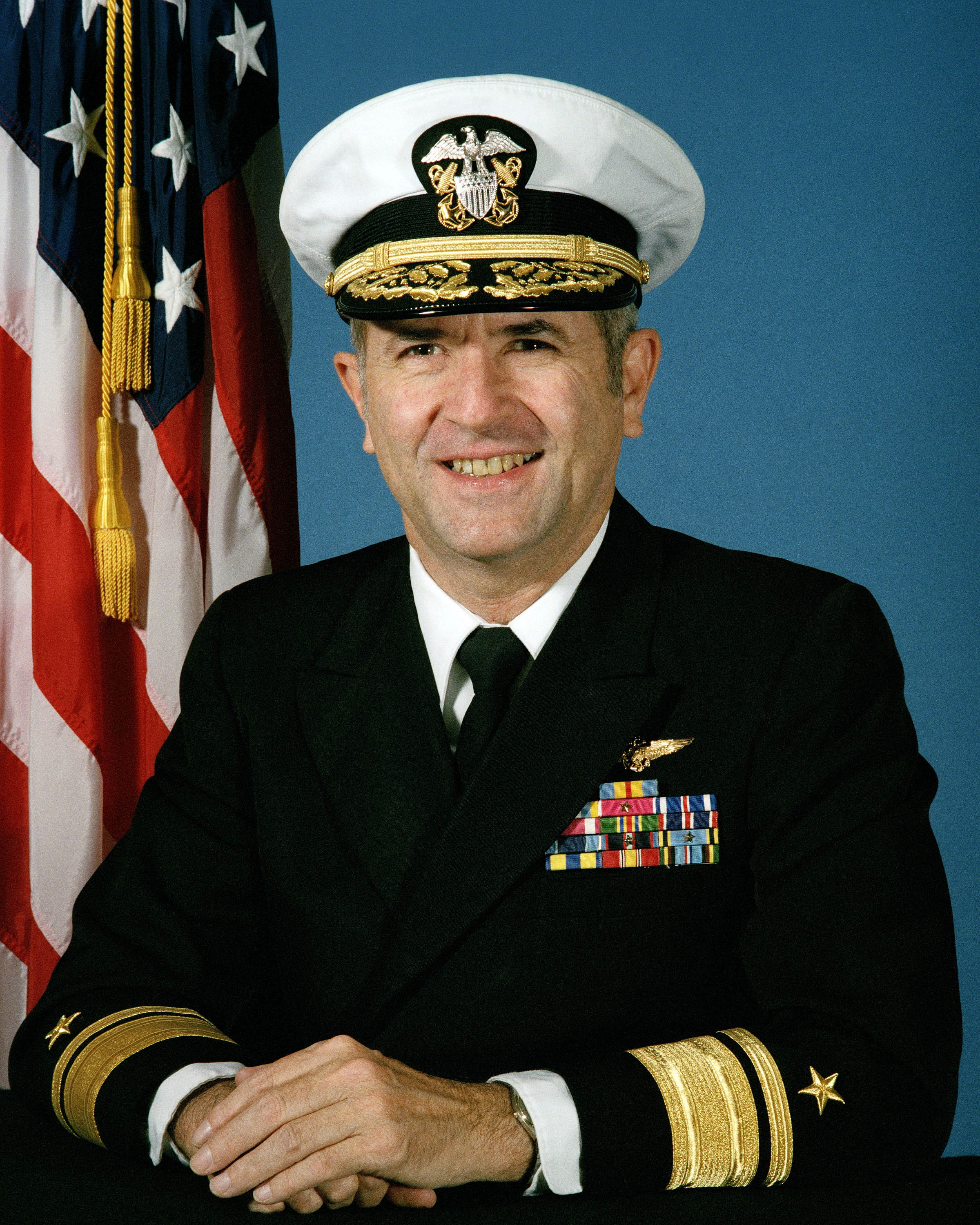 Richard H. Truly, astronaut, Navy admiral, and administrator of NASA.